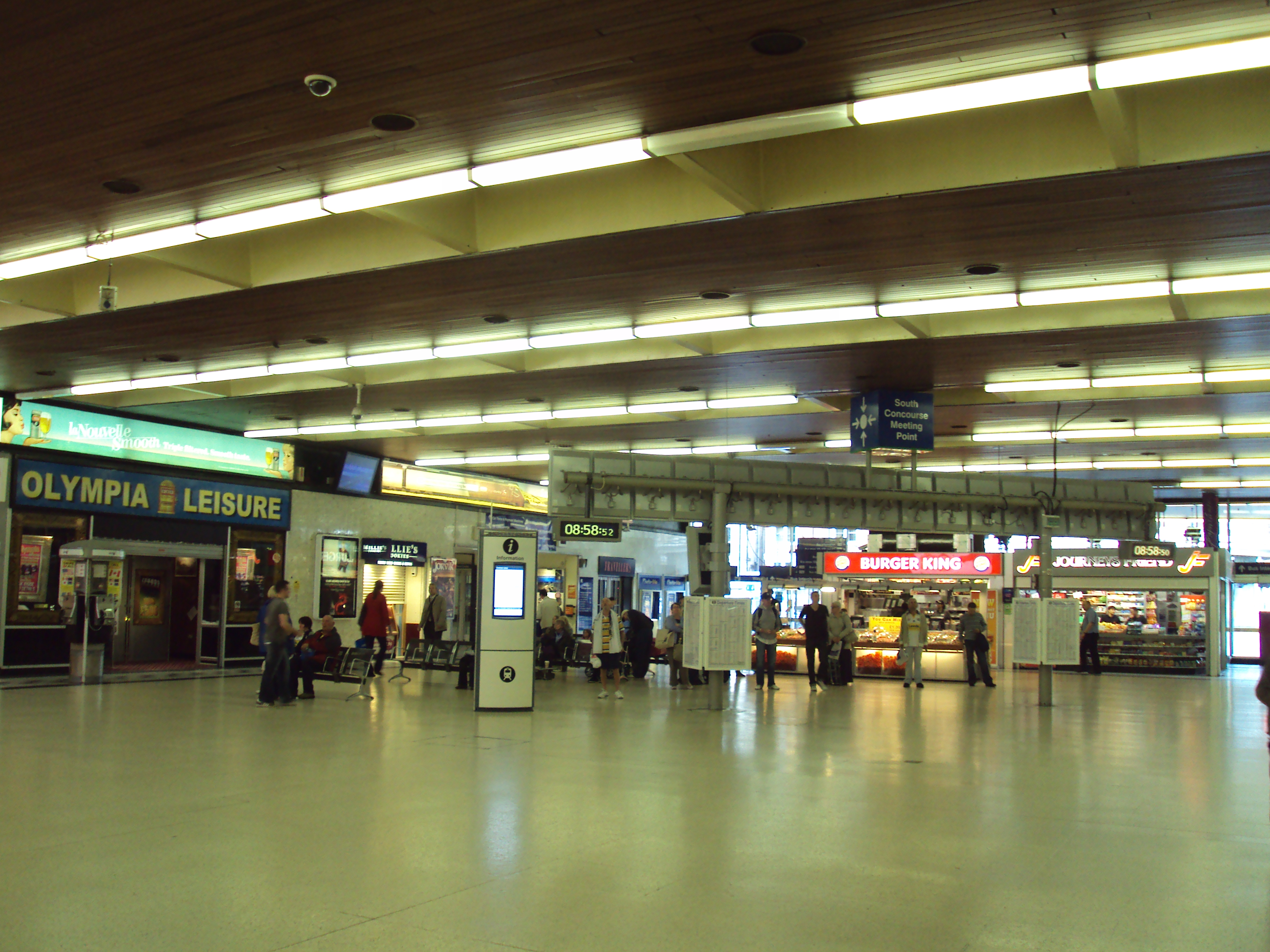 South concourse at Leeds railway station.